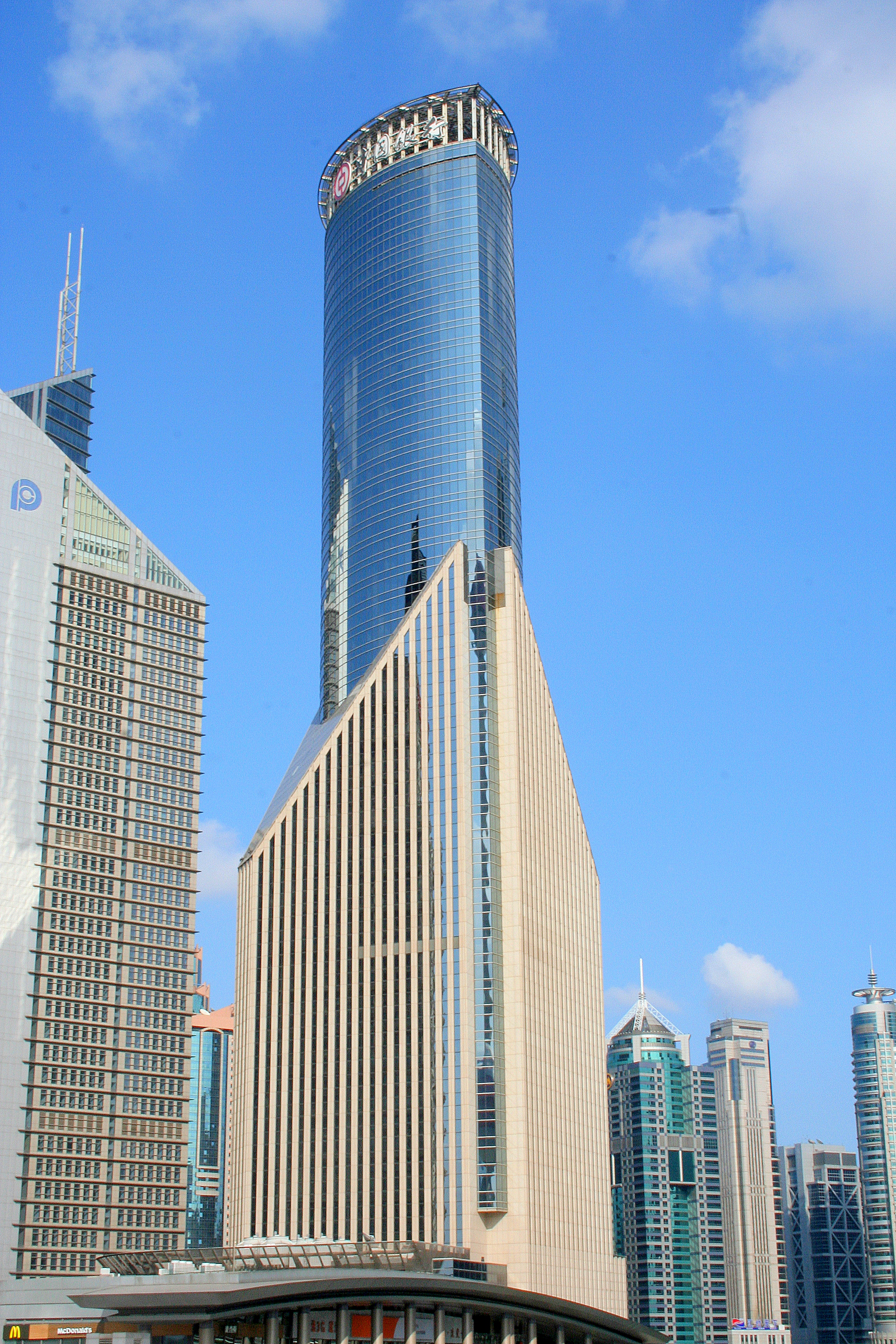 This is the Bank of China Tower, located in downtown Shanghai.